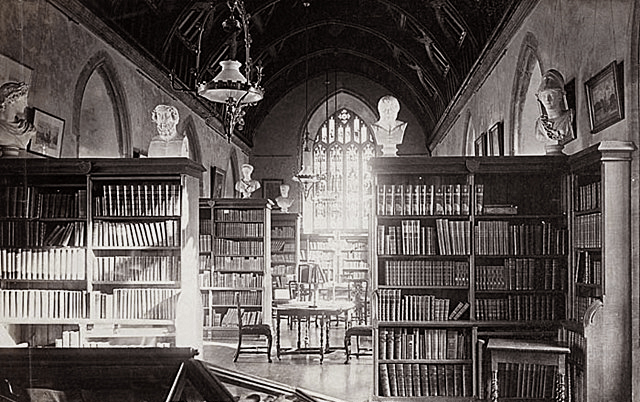 Sherborne School Library South End